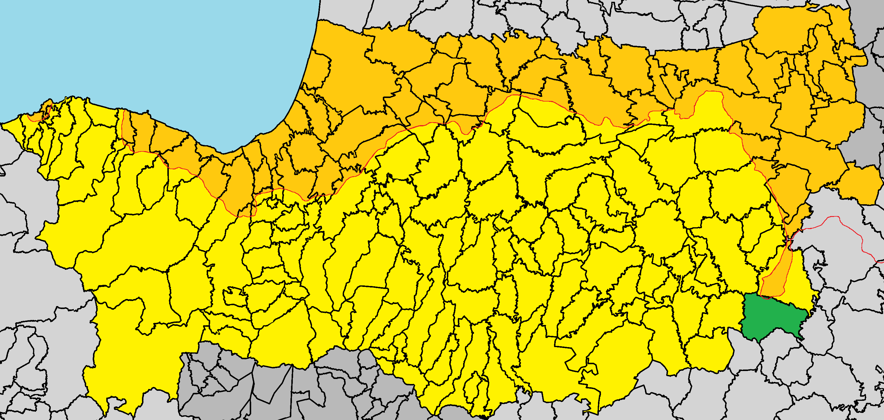 Lympia in Nicosia District (de jure).